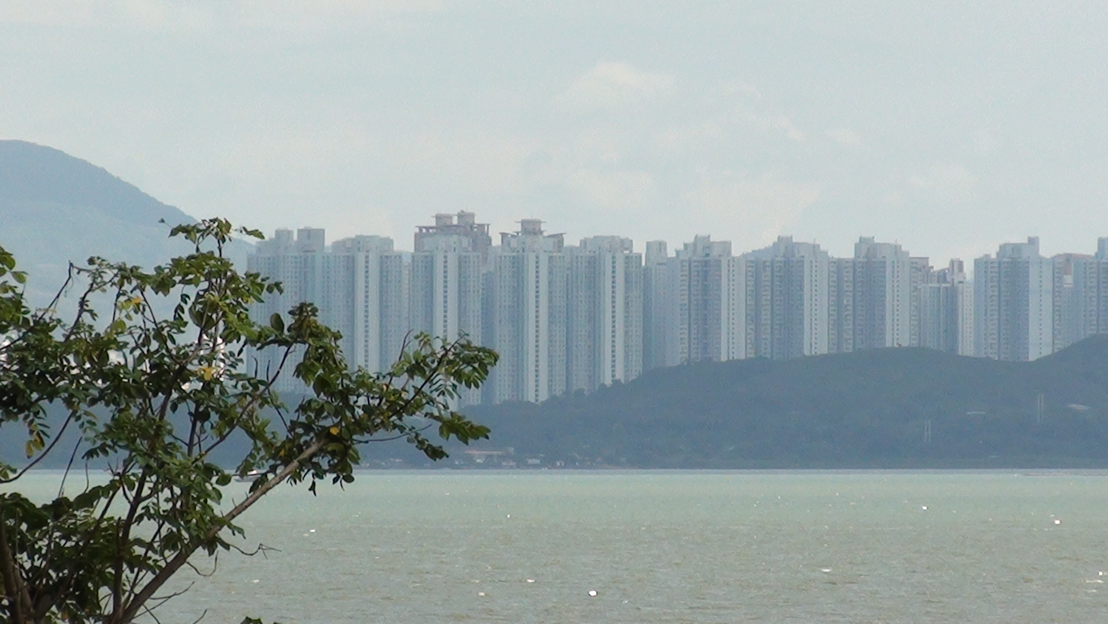 View Tin Shui Wai,Hongkong from Shenzhen,China